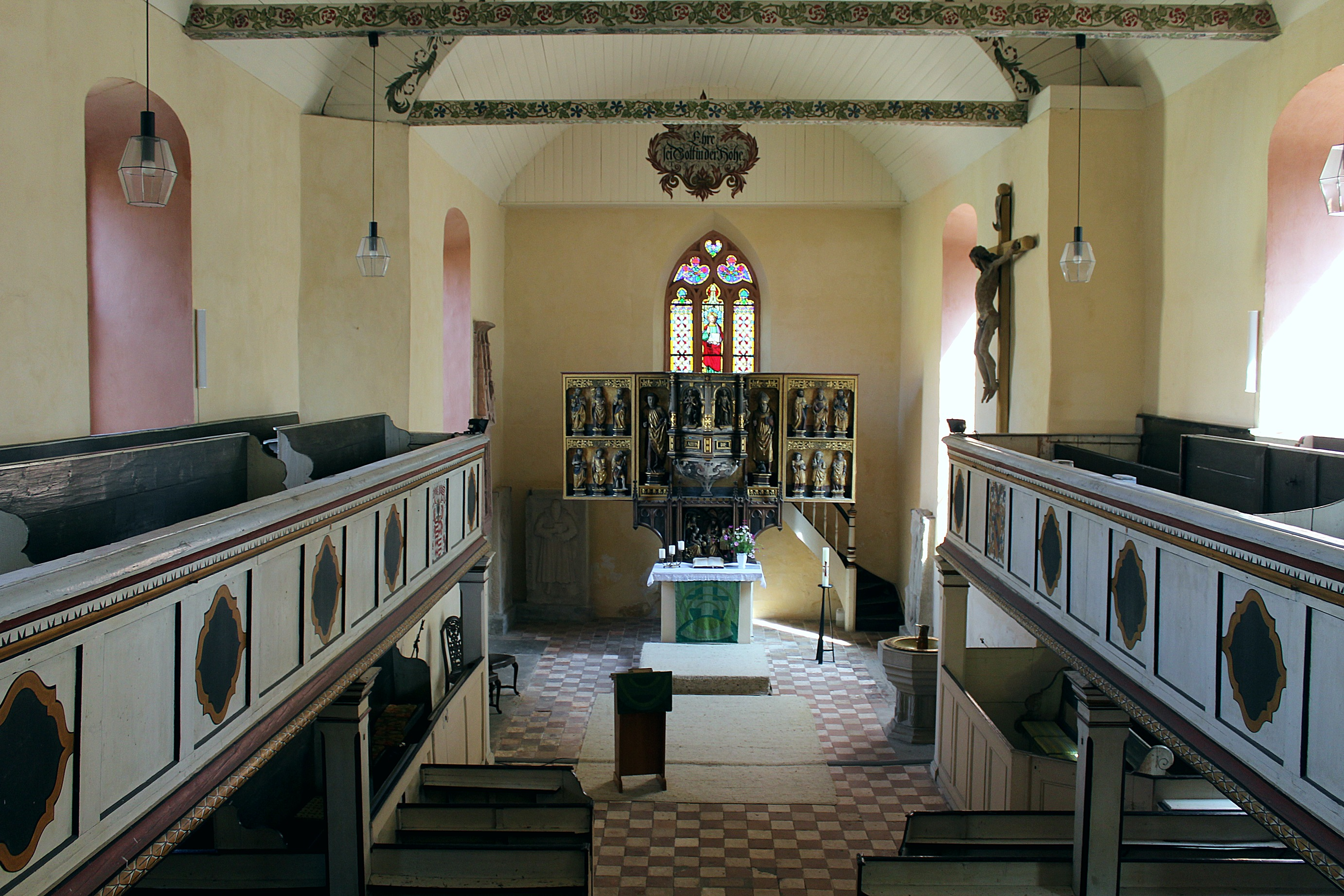 Helbra, Protestant church Saint Stephen, inner view